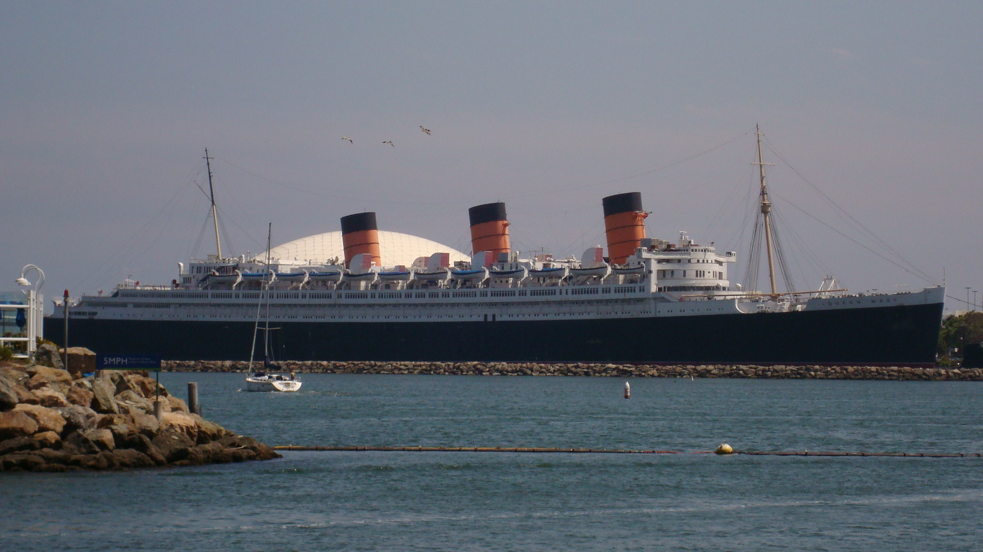 A photo of the ship Queen Mary